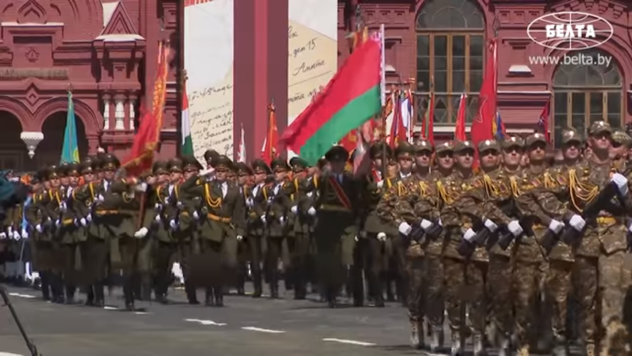 Лукашенко присутствовал на параде в Москве, а также возложил цветы к Могиле Неизвестного Солдата